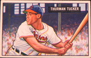 Major League Baseball center fielder Thurman Tucker of the Cleveland Indians in 1951.